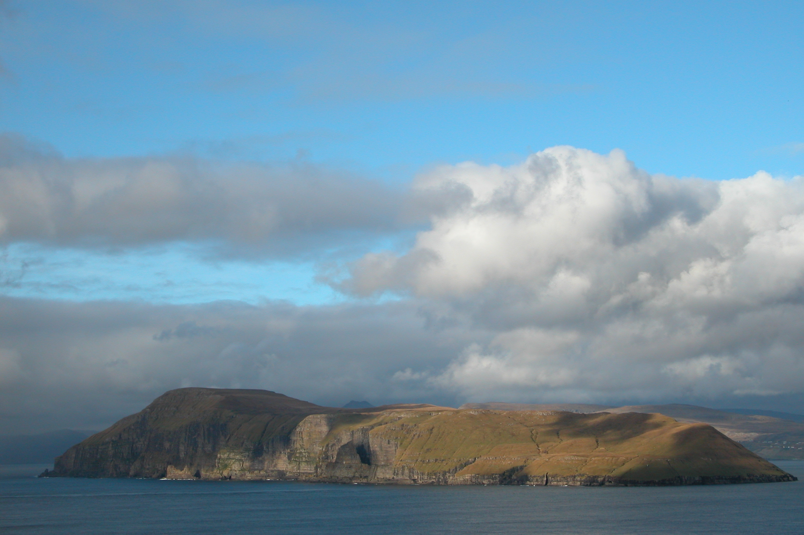 The island of Hestur, Faroe Islands, as seen from Sandoy